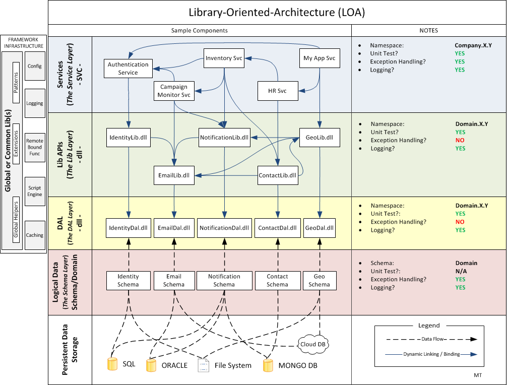 A diagram illustrating the architecture of a Library Oriented approach to Software Engineering.